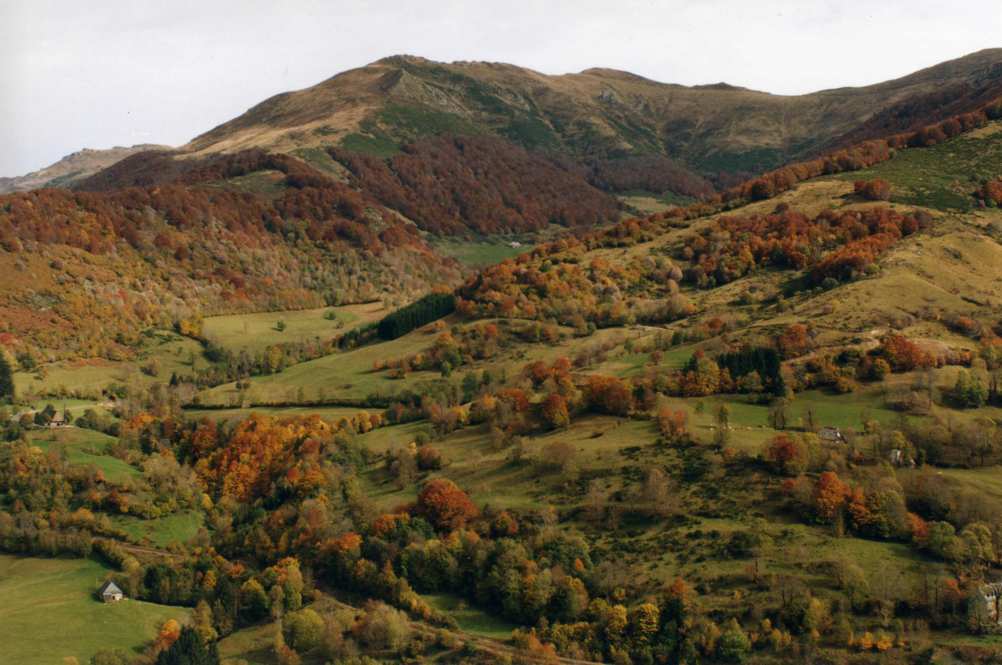 Near the Plomb du Cantal (France - Cantal) Scan of photo (SEPT 1998)